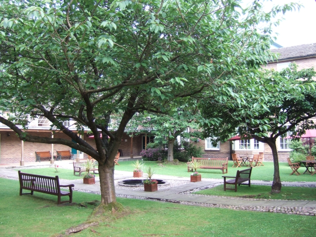 The courtyard of Luther King House The Luther King House Educational Trust has its facilities and staff on the Luther King House site in Brighton Grove, Manchester